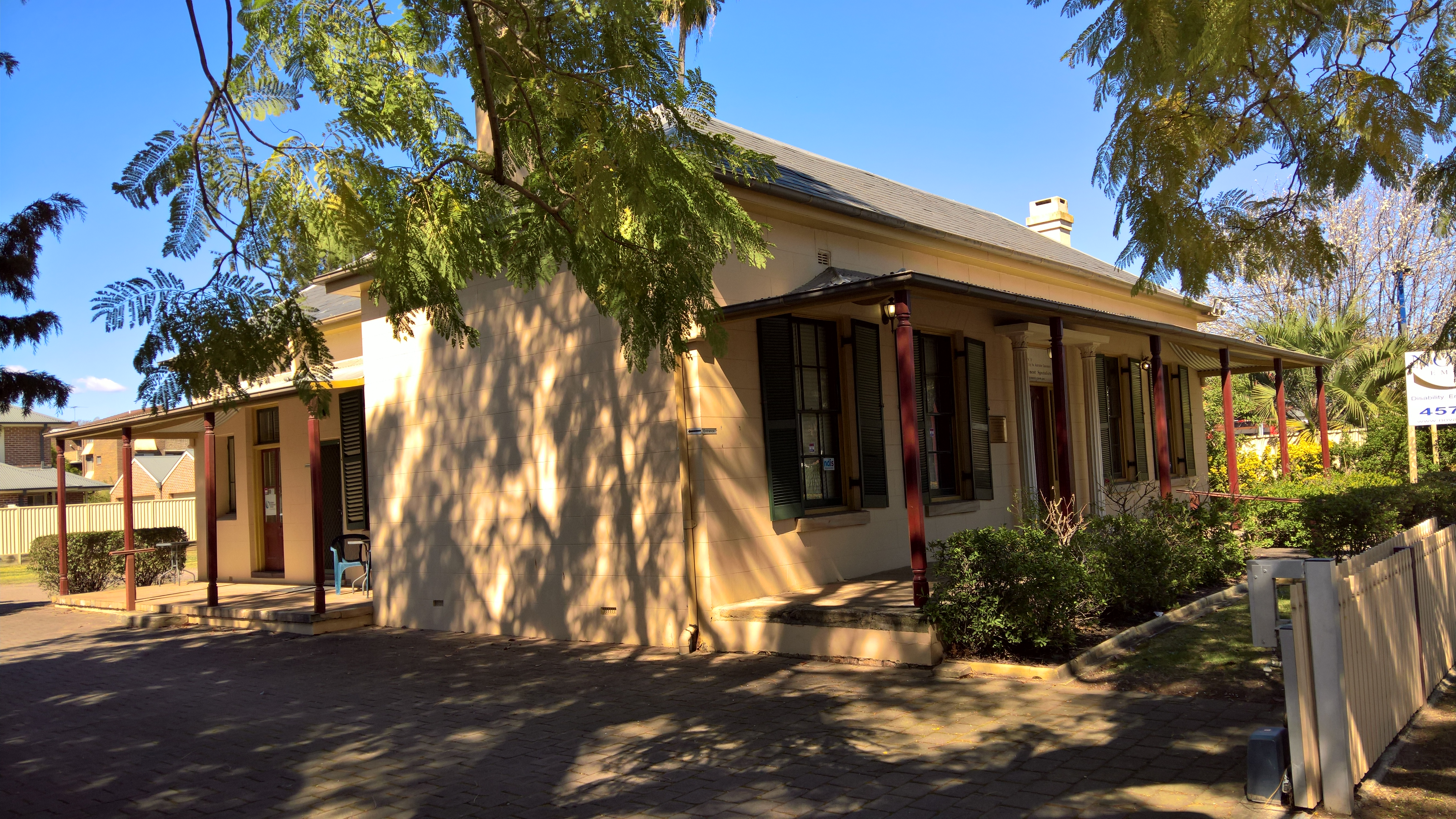 Front and side view of Seymours House, 24 Bosworth Street, Richmond is listed on the New South Wales Heritage Register